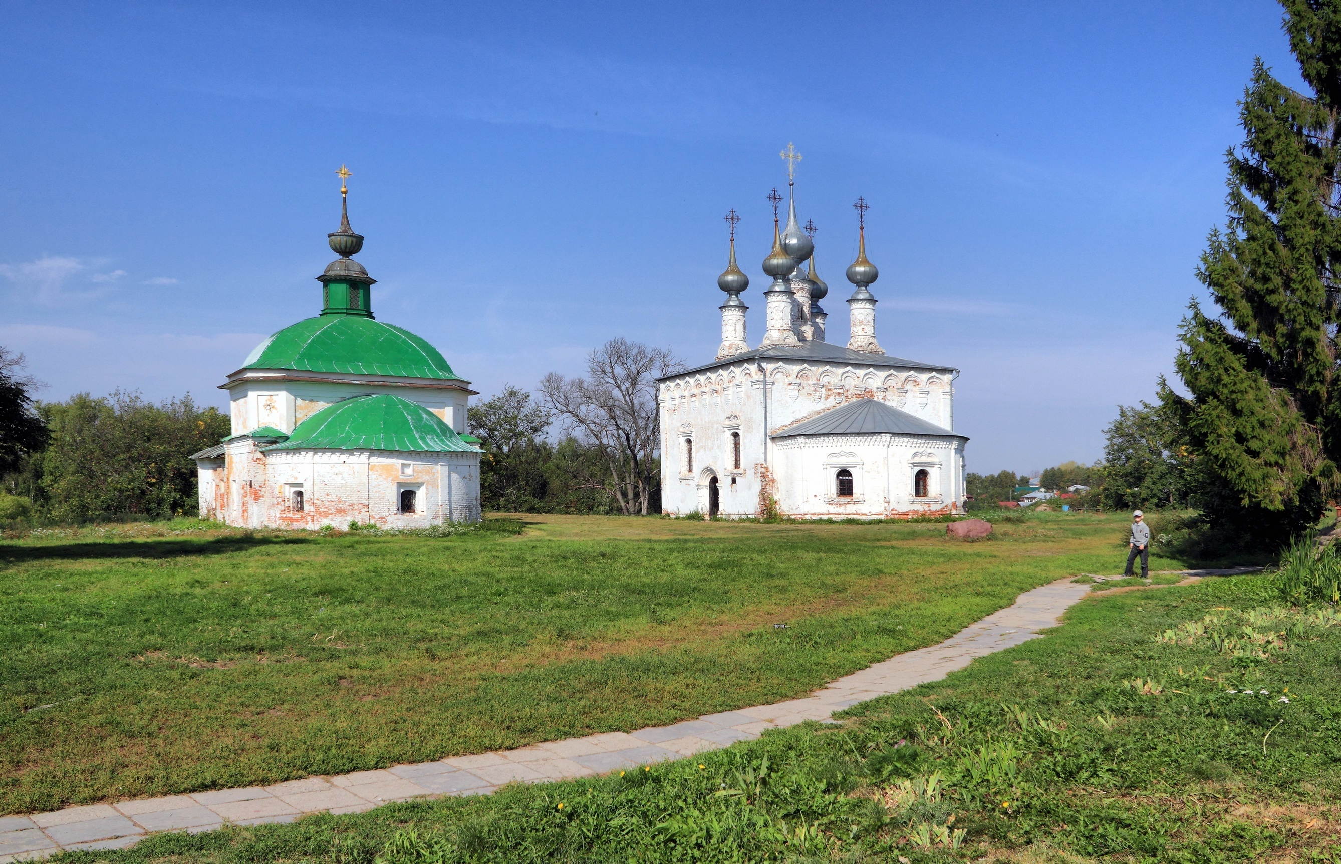 Suzdal. Church of the Entry of the Lord into Jerusalem and Church of Paraskeva Pyatnitsa